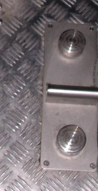 Foot pedals in the cabin of a VIRM locomotive for operation of the horn, with two tones available.